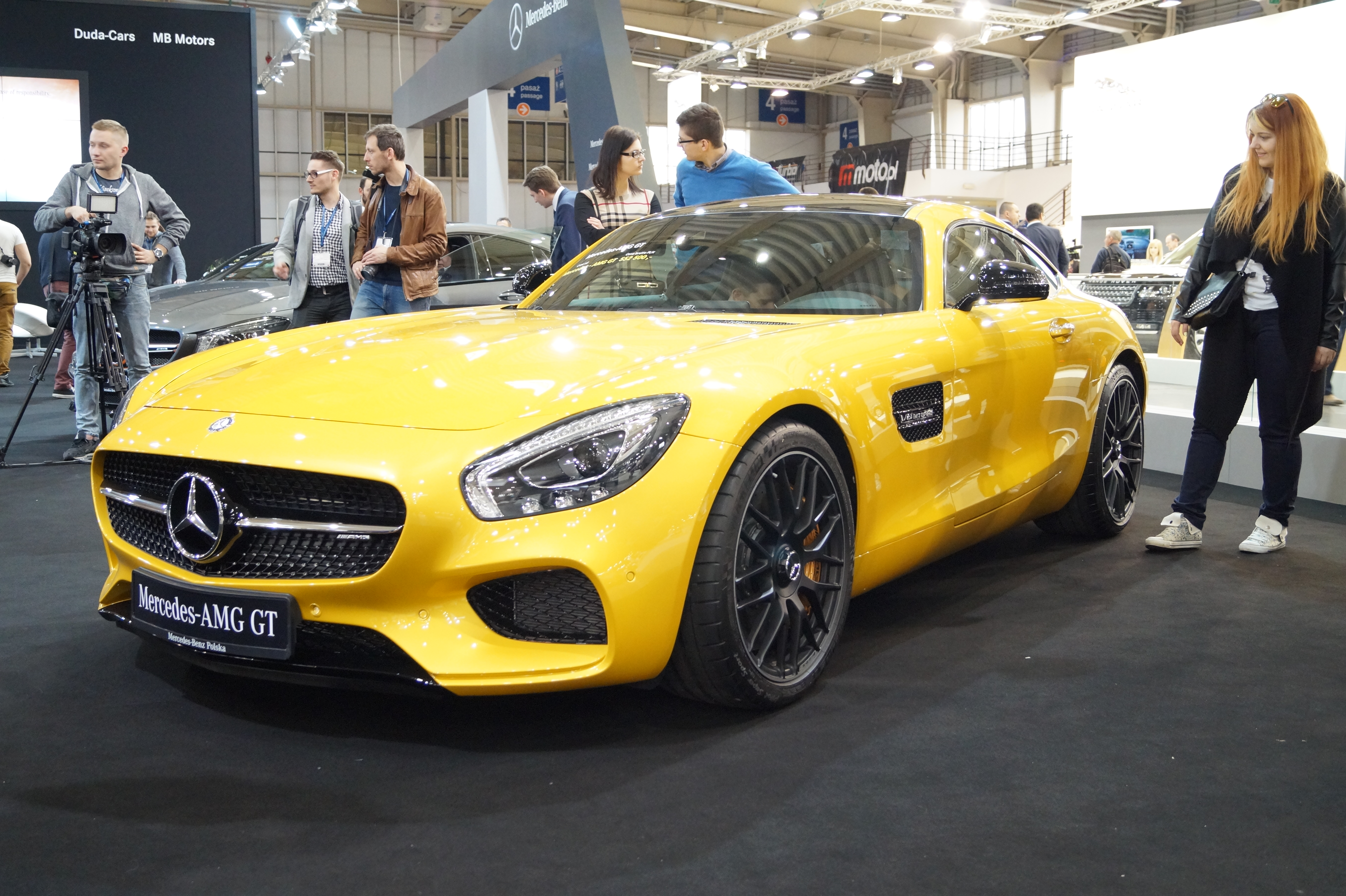 The making of this document was supported by Wikimedia Polska Association, within Wikigrant no. WG 2015-19. English | polski | +/− Mercedes-AMG GT na Motor Show Poznań 2015